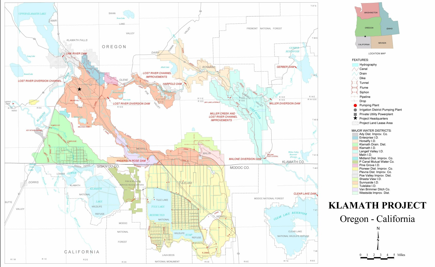 USBR Map